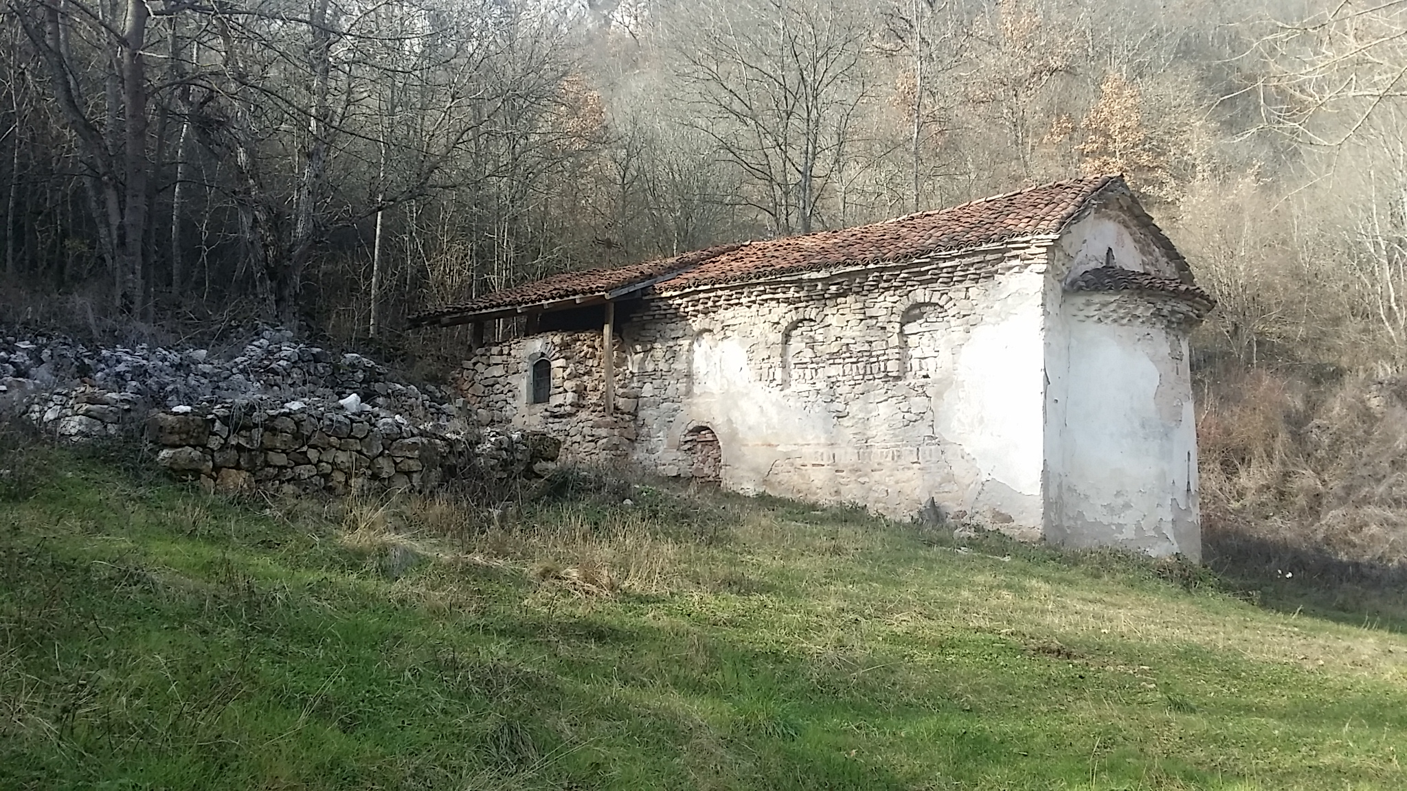 Ездемировска планина